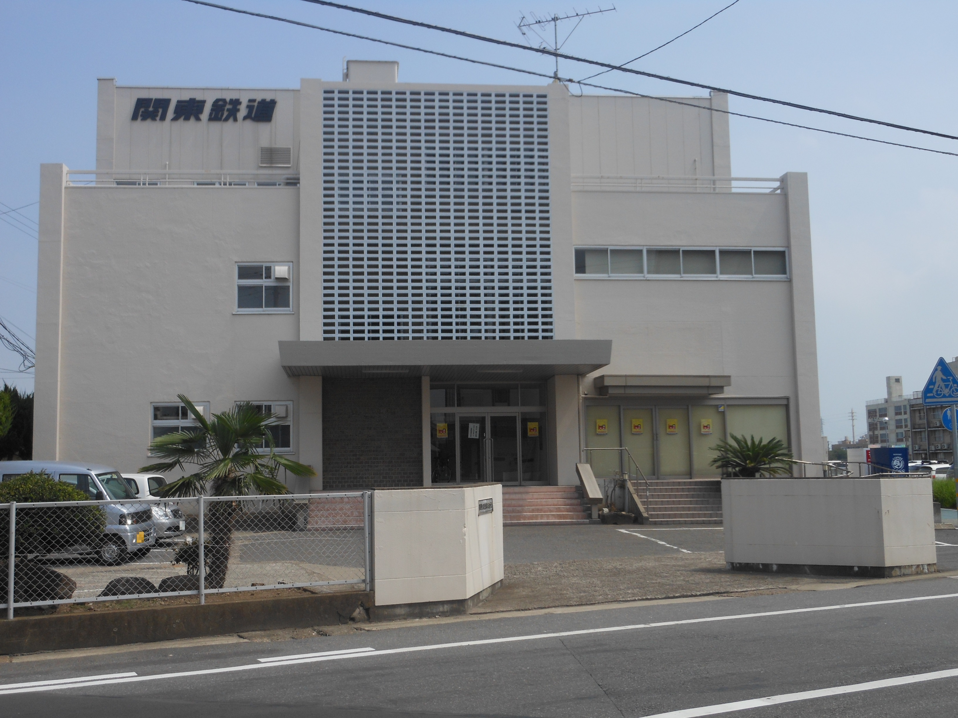 This is the head office building of Kanto Railway Co., Ltd. in Tsuchiura, Ibaraki, Japan.